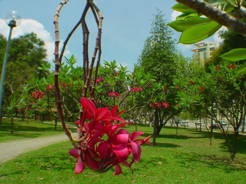 Flowers of the Plumeria rubra (Red Frangipani, Common Frangipani or Temple Tree) in Bedok Reservoir Park, Singapore.